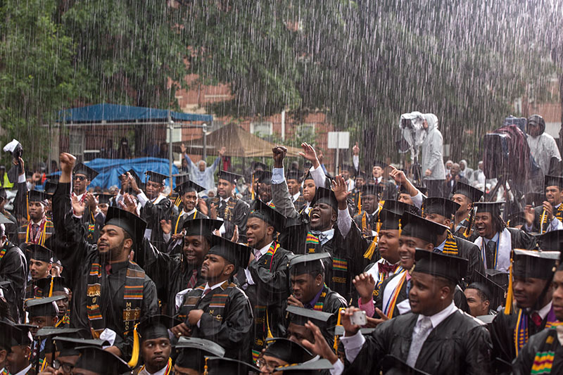 Graduates react as President Barack Obama delivers remarks during the commencement ceremony at Morehouse College in Atlanta, Georgia, May 19, 2013. (Official White House Photo by Pete Souza)